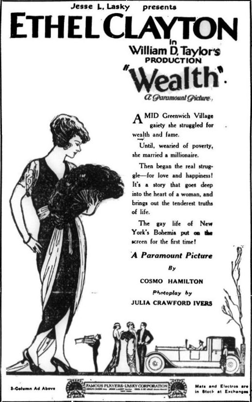 Advertisement for the American drama film Wealth (1921) with Ethel Clayton, on page 27 of the July 1, 1921 Variety.